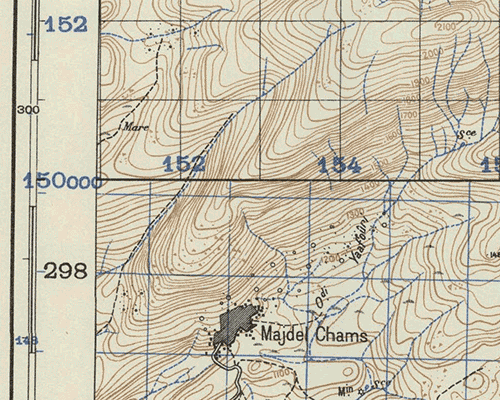 Portion of 1941 military map showing intersection of Palestine and Levant grids (sheet Herman; Levant 50.K.18)